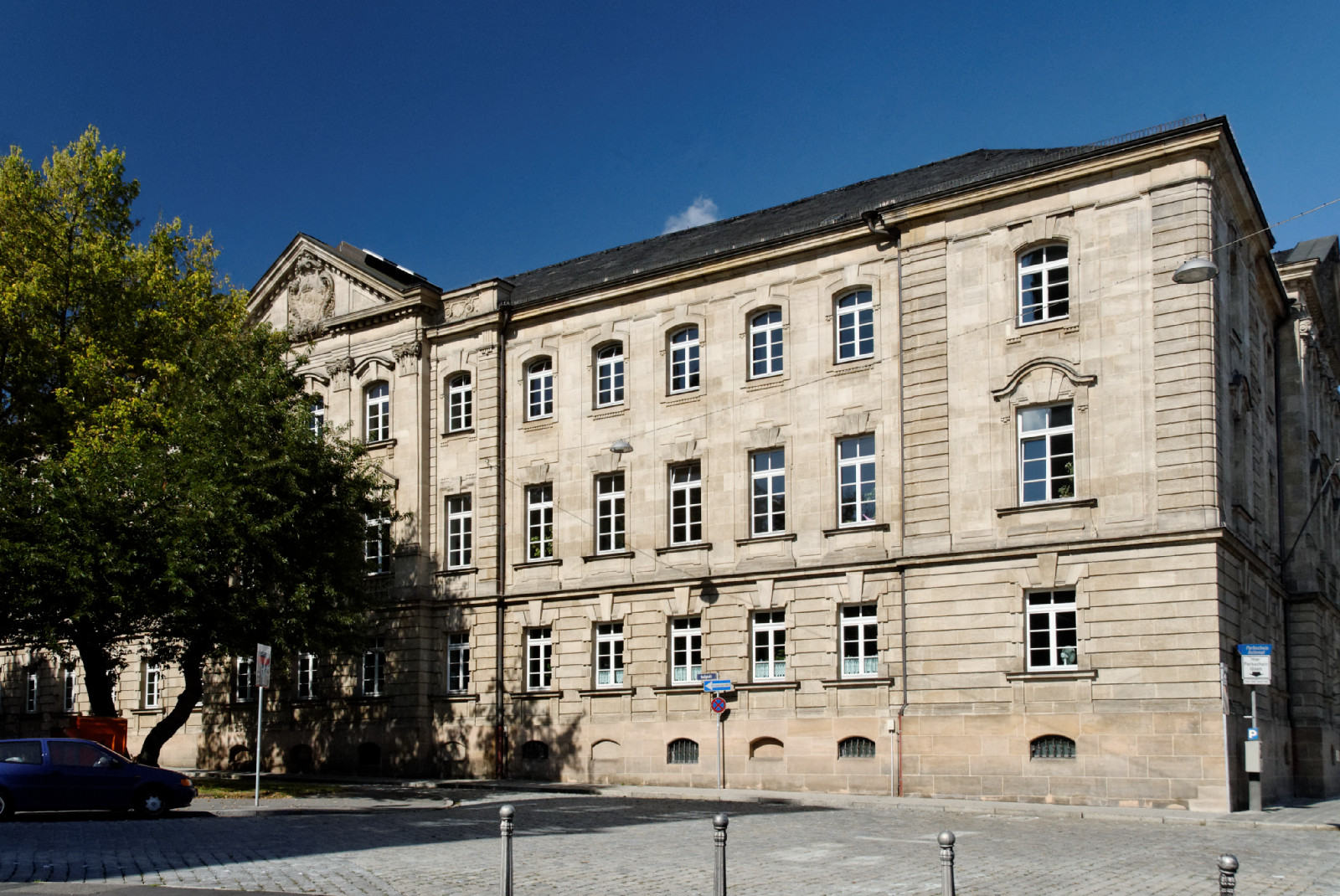 Amtsgericht, Bäumenstraße 32 (seen from Hallplatz) in Fürth, Germany